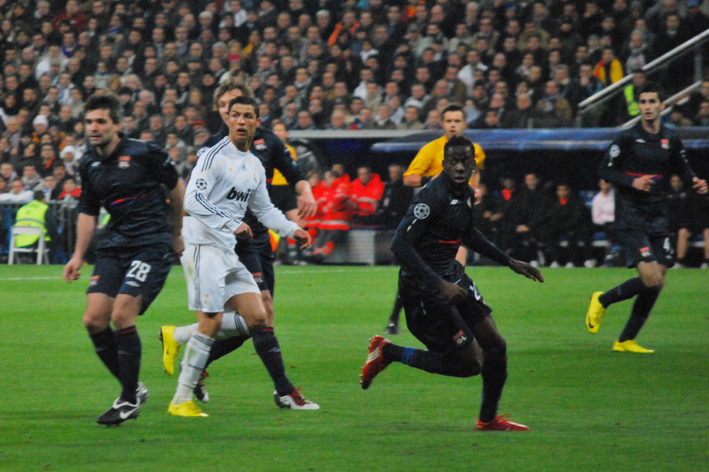 Jérémy Toulalan and Aly Cissokho of Olympique Lyonnais surround Real Madrid's Cristiano Ronaldo